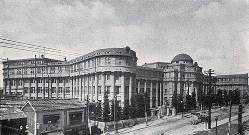 Meiji_University_Third_Memorial_Hall